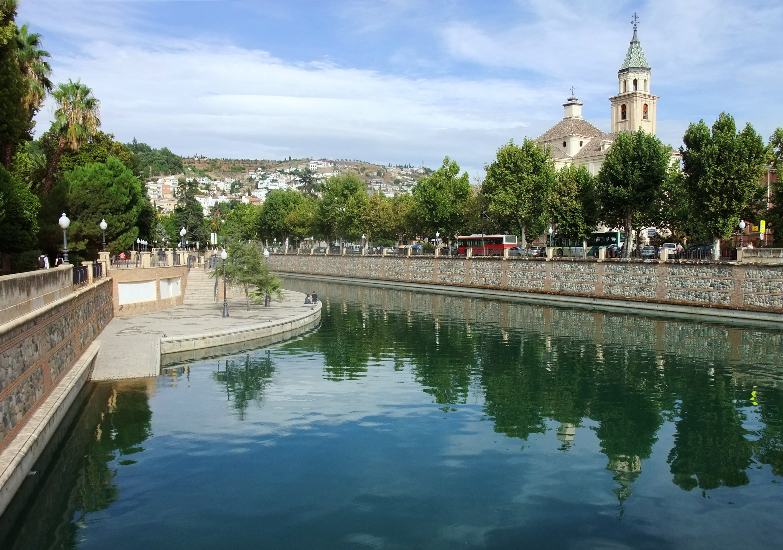 Rio Genil in Granada, Spain